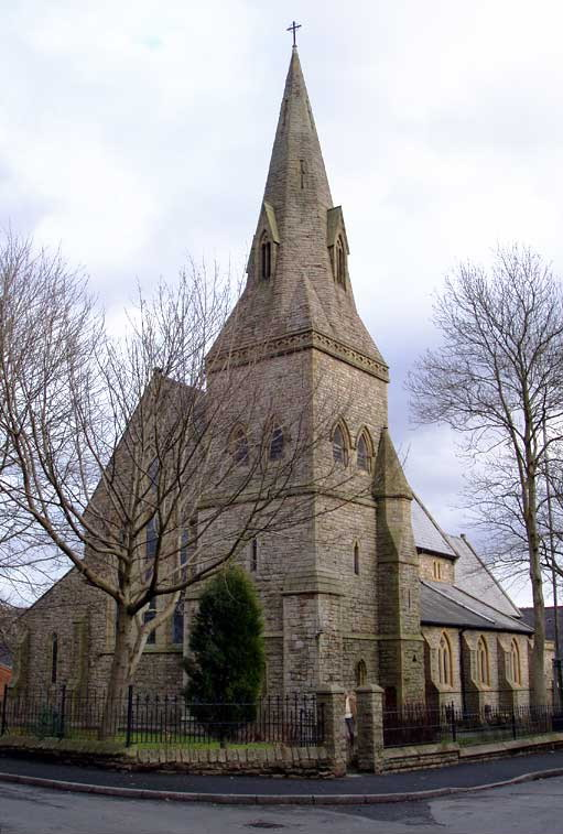 St James' parish church, St James' Street, East Crompton, Shaw and Crompton, Greater Manchester, England, seen from the west